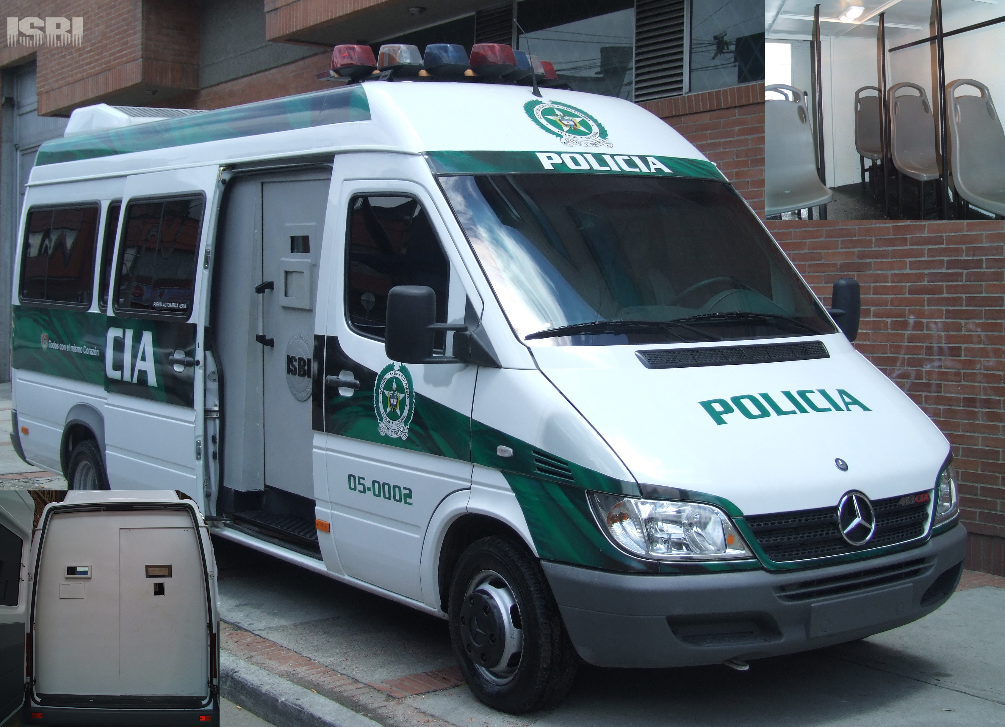 Armored van used to transport prisoners that are going to be extradited by the Dijin Secret Police.